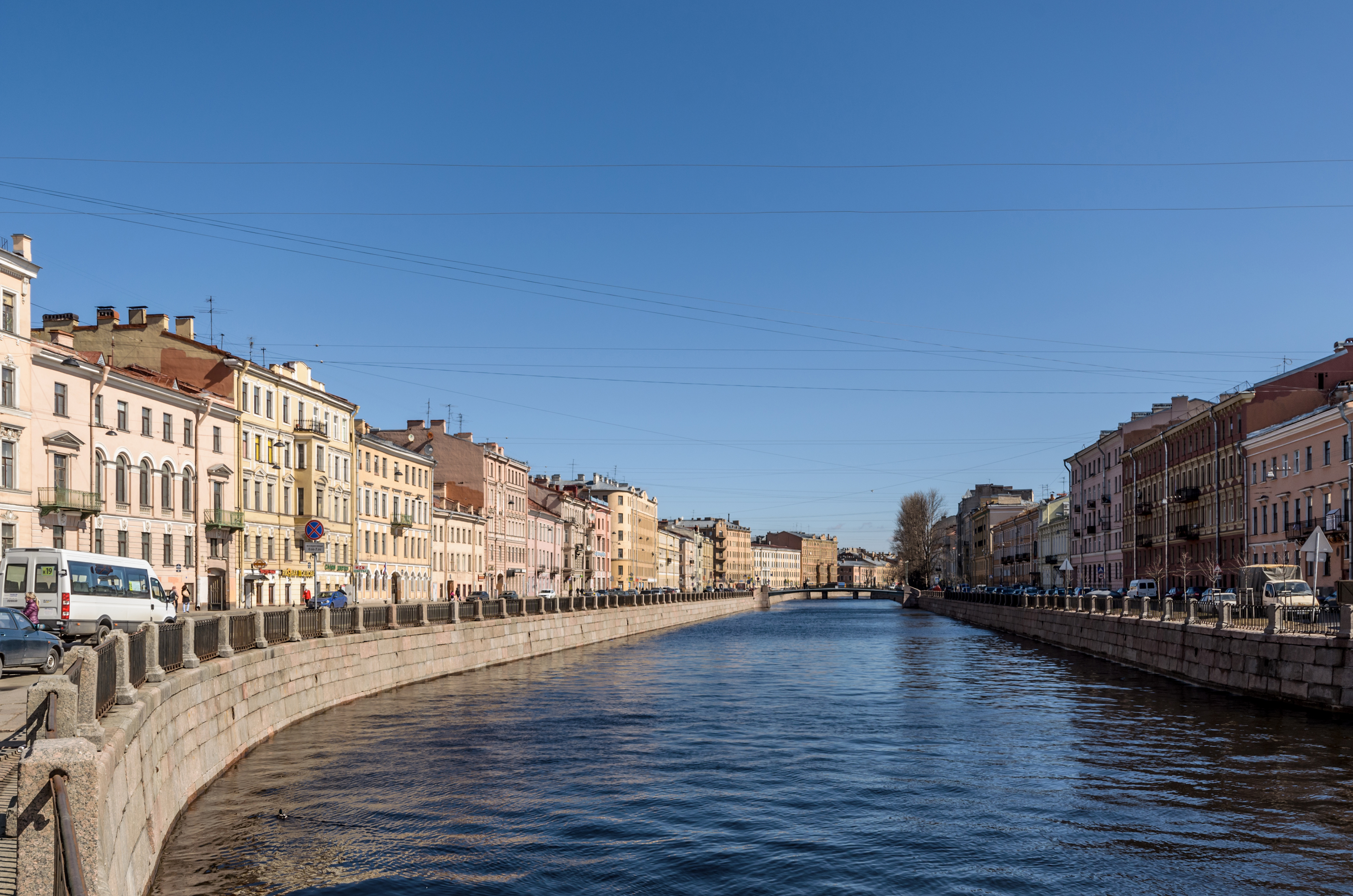 Griboedov channel in Saint Petersburg